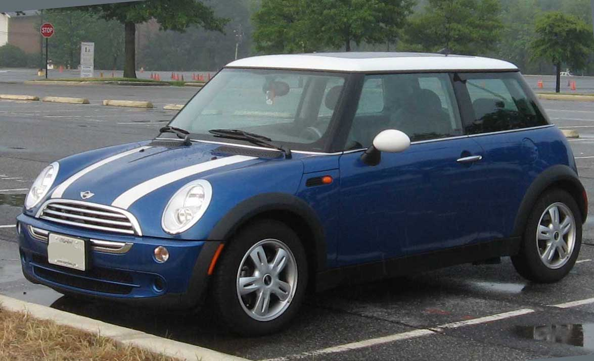 2002-2006 Mini Cooper photographed in USA.